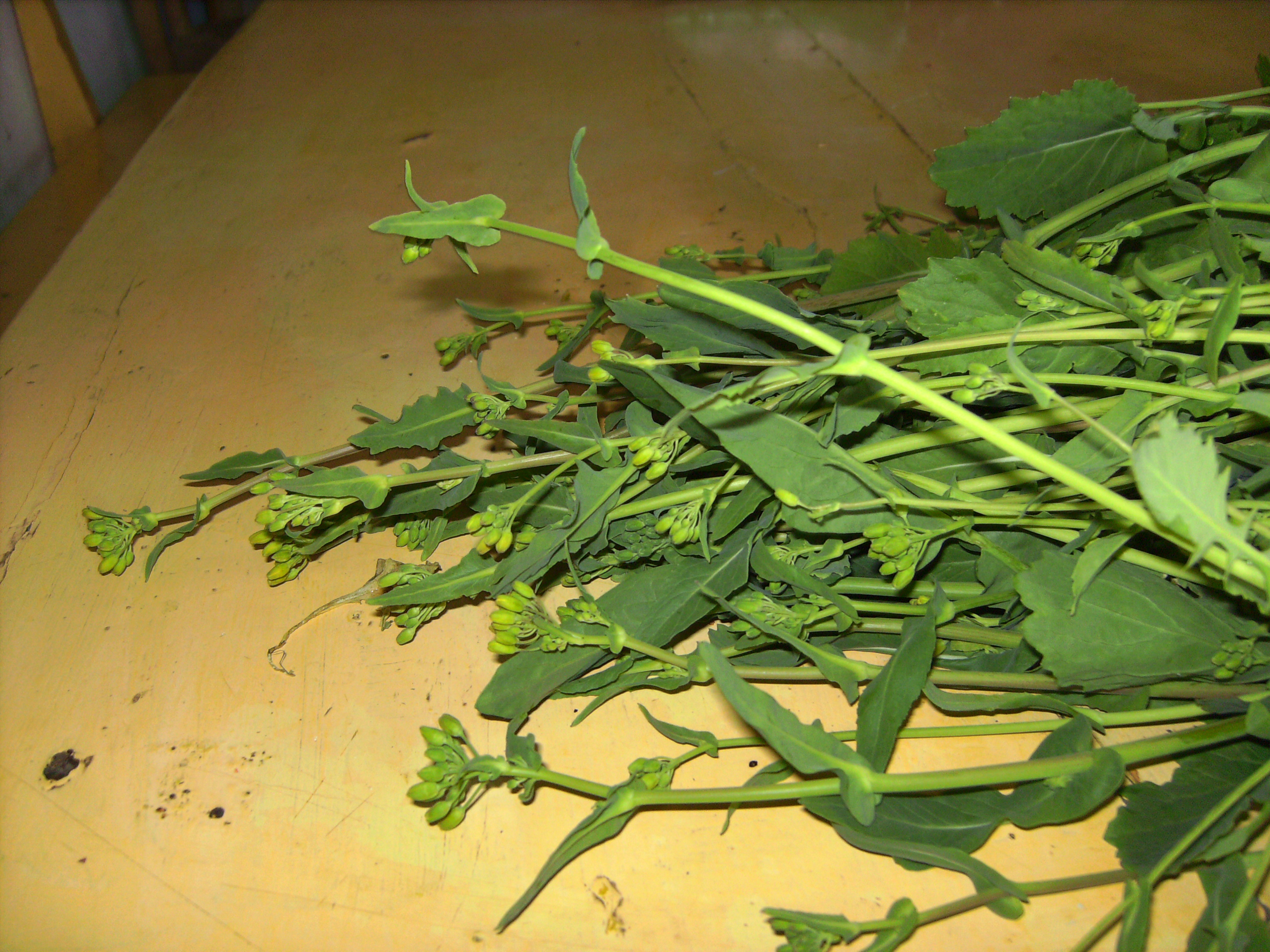 "Grelos" at February in Catalonia, edible flower shoots from "Brassica napus"